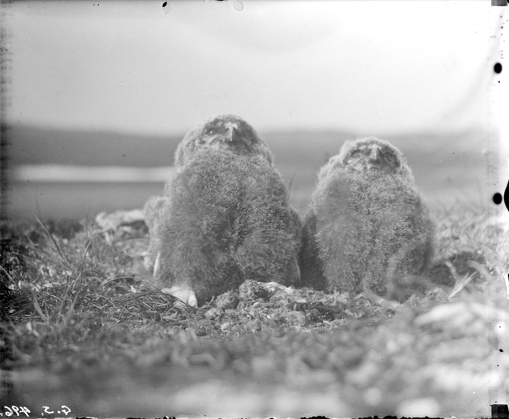 Young snowy owls, Aitkin lake, Dorset, Baffin Land, July 18, 1926.